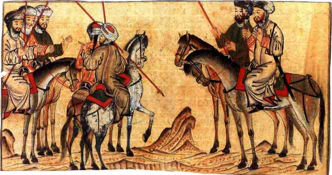 Muslim dignitaries hold council before the Battle of Badr.